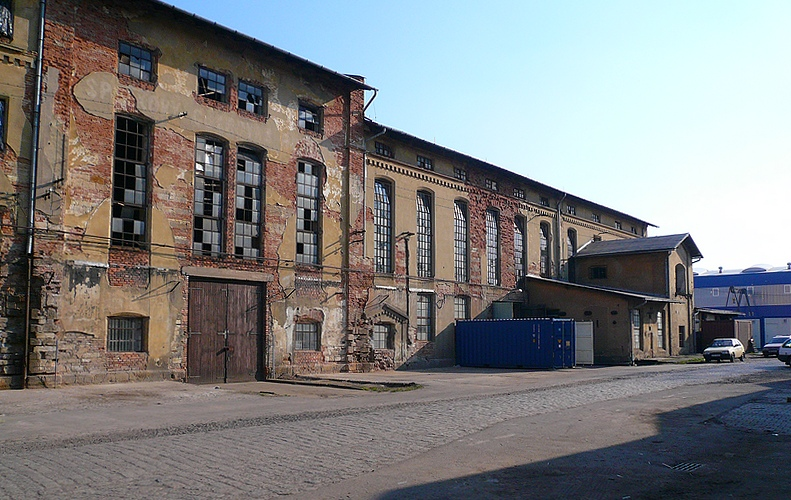 Cukrovar ve Vinoři, exterier (zbouráno)